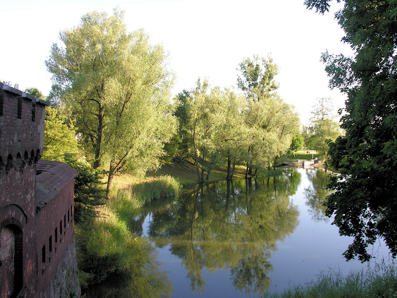 Ausfalltor (from the left) in Kaliningrad.